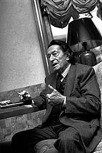 Henri Laborit